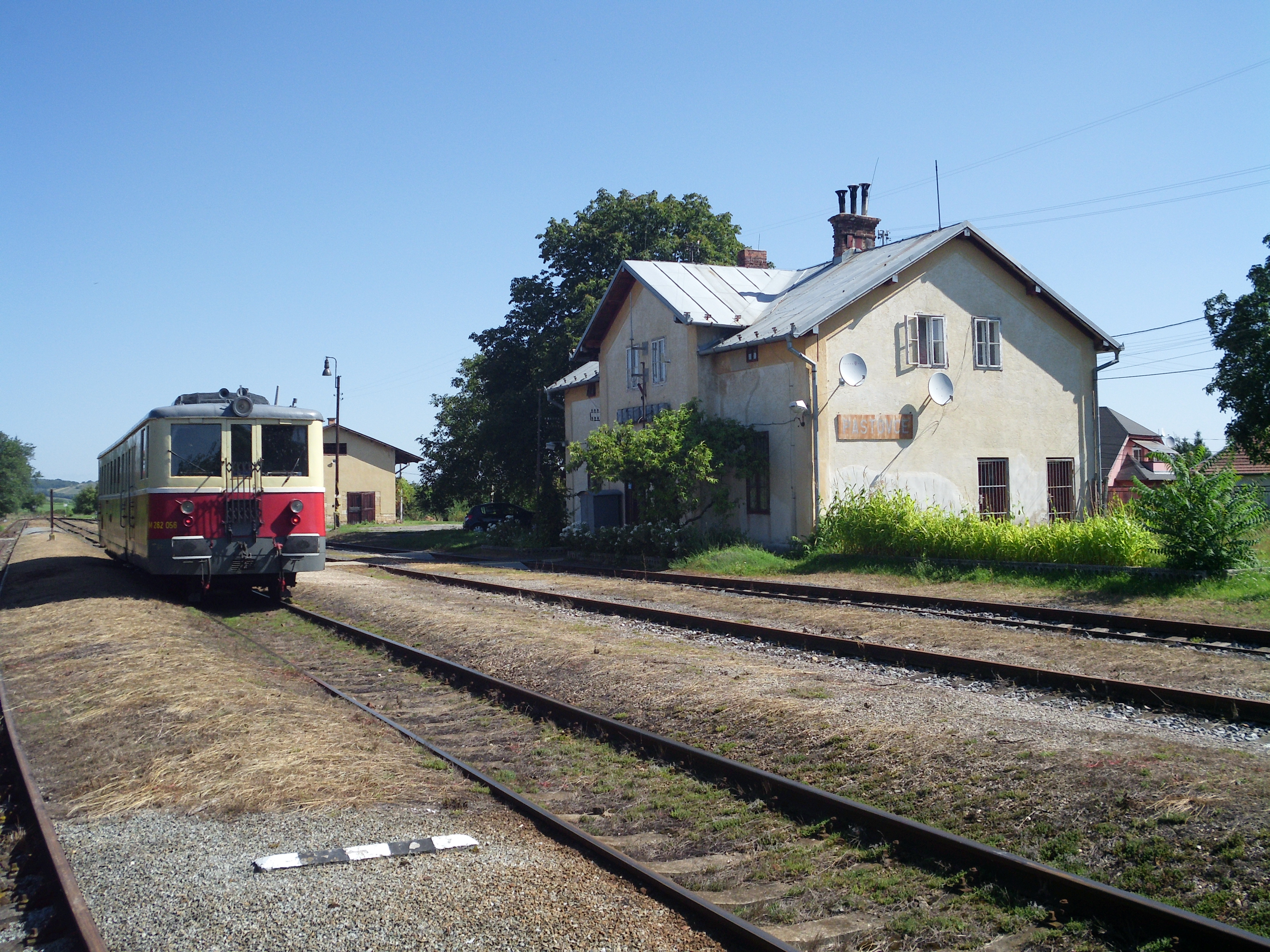 Diesel railcar 830 (marked as M262, belonging to KŽC Doprava) at a station in Pastovce, Slovakia, on Zvolen– Čata route.